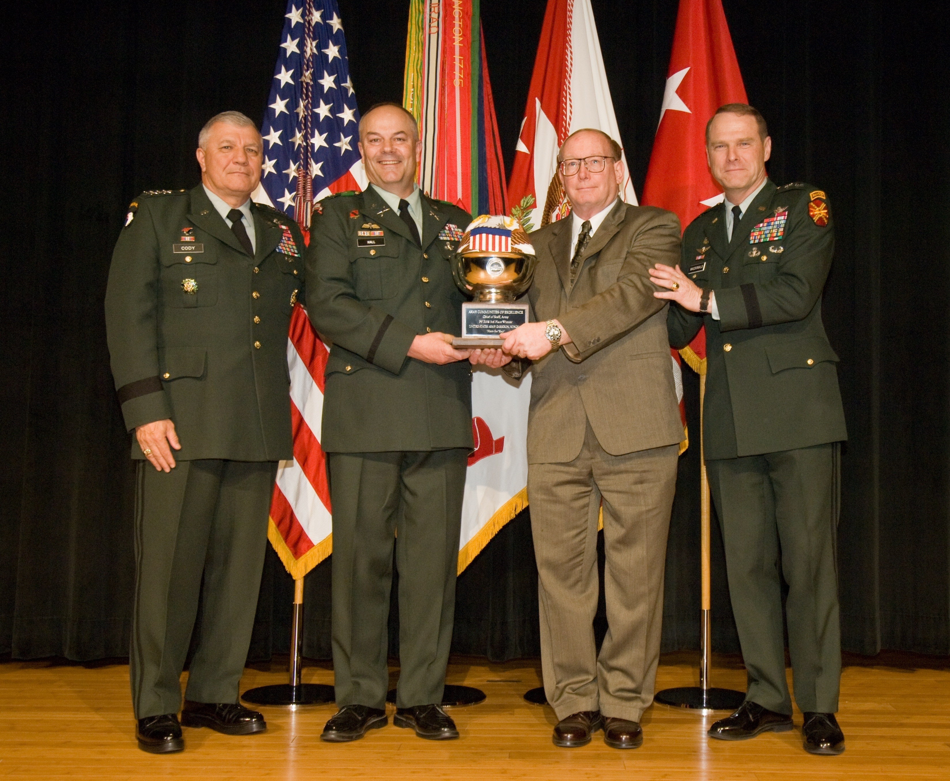 Army Vice Chief of Staff Gen. Richard A. Cody (left) and Installation Management Command Deputy Commander Maj. Gen. John A. Macdonald (right) present USAG-Yongsan officials with a third place trophy for the Fiscal 2008 Army Communities of Excellence competition May 8 at the Pentagon. Garrison Commander Col. Dave Hall and Plans, Analysis and Integration Chief Barry Robinson represented the Yongsan community.